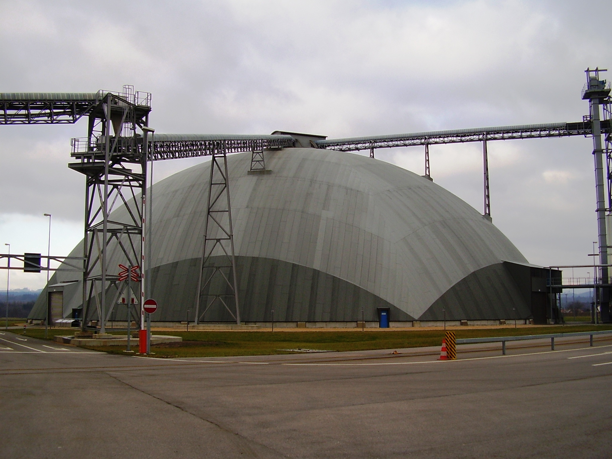 The saldome at the Salt evaporation pond Riburg in Rheinfelden near Möhlin, Switzerland